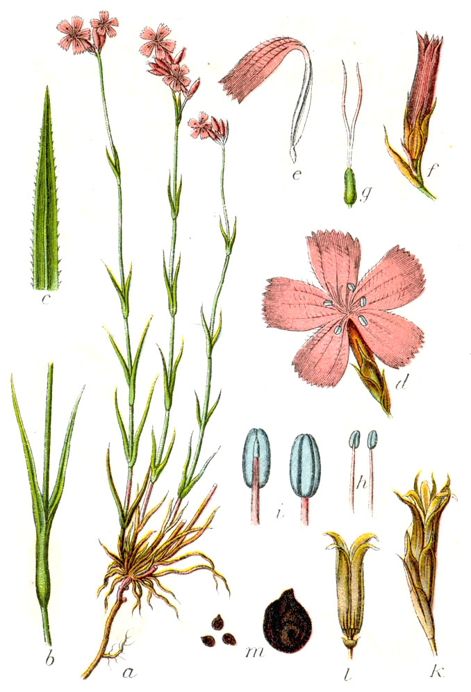 Dianthus carthusianorum L. subsp. carthusianorum, syn. Silene carthusianorum E.H.L.Krause Original Caption Karthäuser-Nelke, Silene carthusianorum